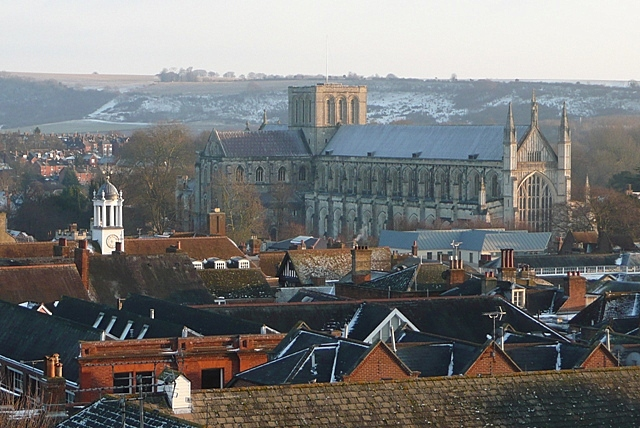 Winchester cathedral Taken from the 2nd floor of Hampshire County Council's refurbished offices at E2 Court. The cathedral squats in the valley of the River Itchen, but none the less dominates the city. Started in 1079 by Bishop Walklin, it was consecrated in 1093. The tower fell down in 1107 (thought to be bad luck caused by the burial of the unpopular King William 2nd (Rufus) here in 1100) and was never rebuilt. The nave (this end between the West window and the tower) is the second longest in Europe after St. Peter's in Rome.